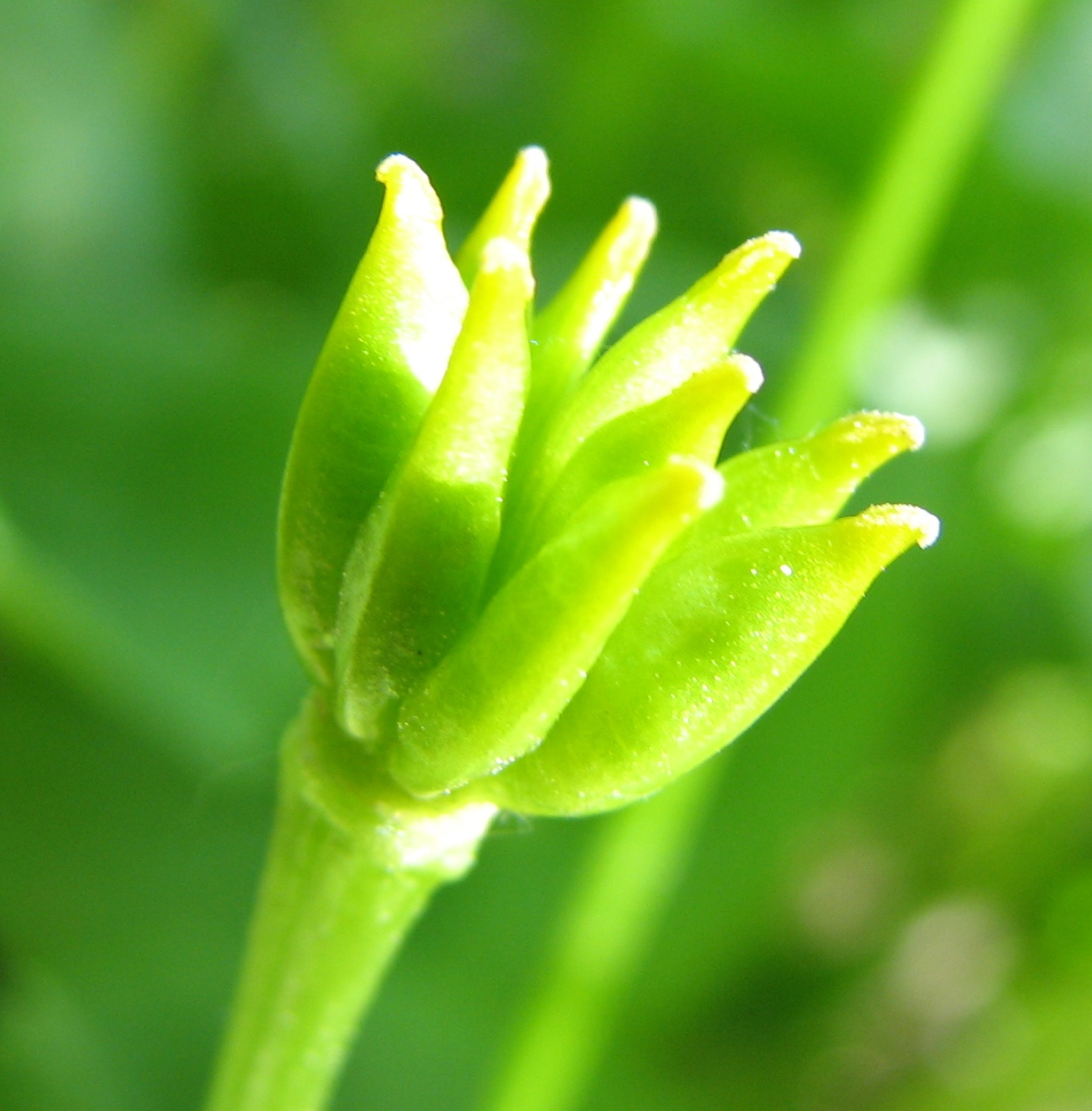 Caltha palustris, fruit. Gatchina, Leningrad oblast, Russia